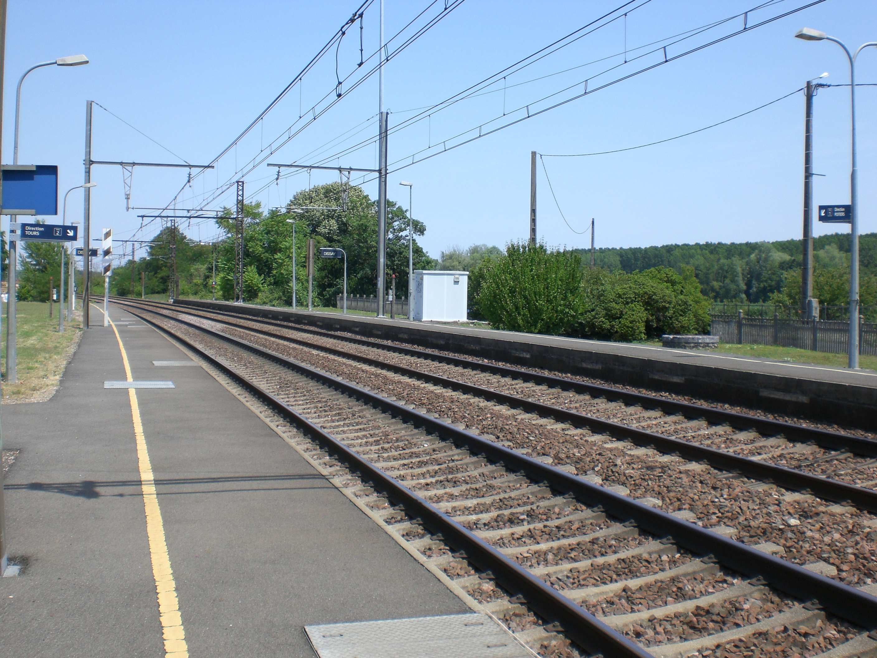 View towards Tours of the station platforms of Dissay.